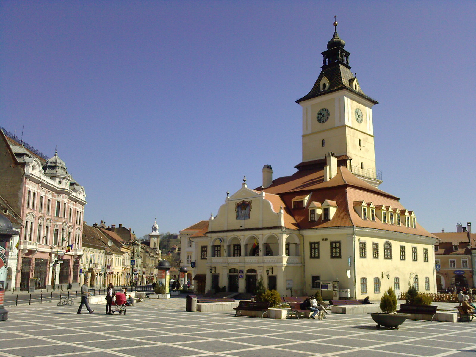 Braşov, the Council House